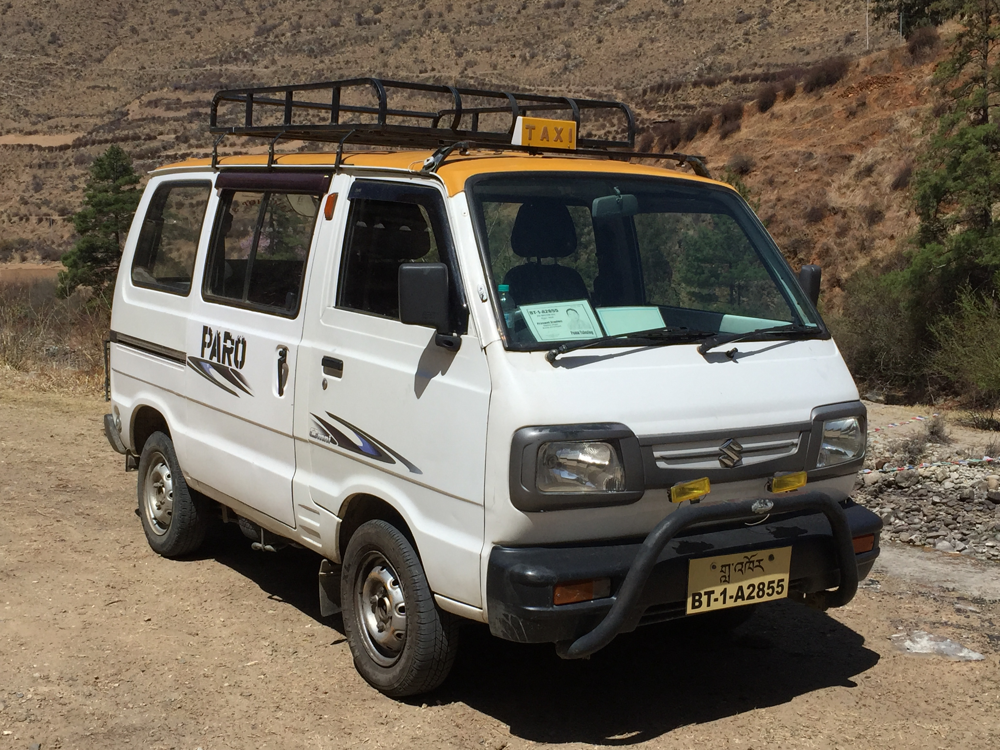 A Maruti Suzuki Omni registered in Paro, parked in Paro town.